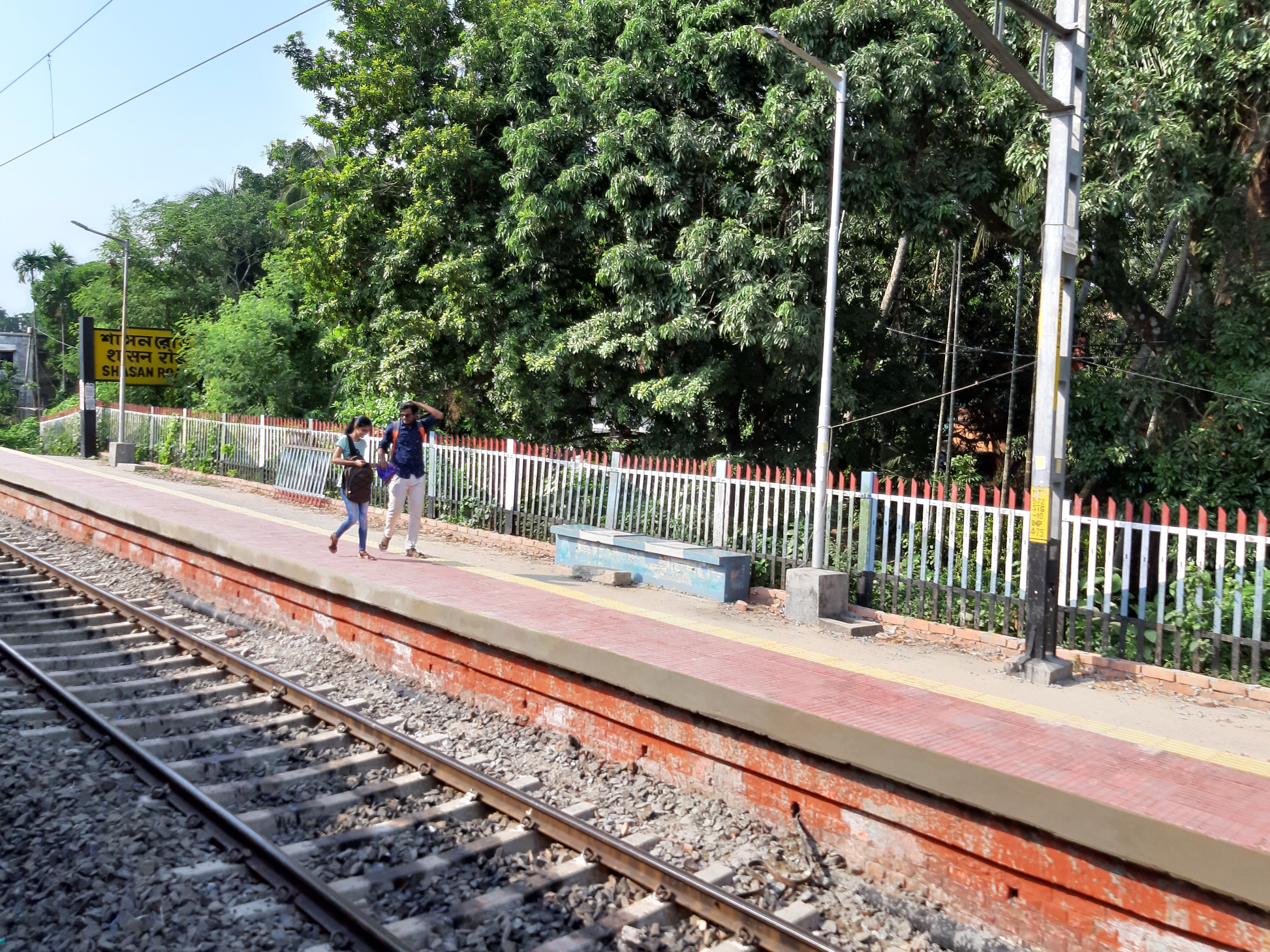 Railway stations of Sealdah south.Baruipur to Laxmikantapur South 24 parganas,West Bengal